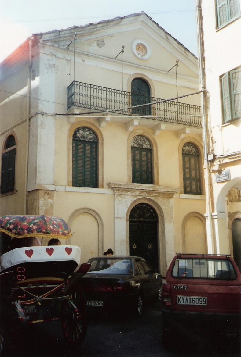 synagogue in corfu